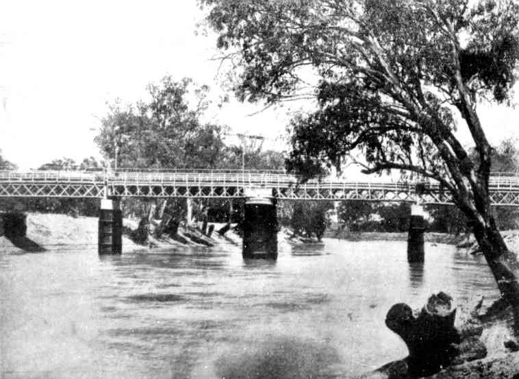 Iron lattice swing bridge opened in 1873 and demolished in 1973.